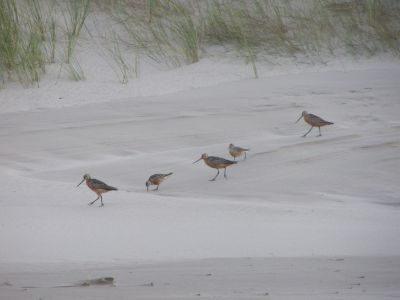 Group of 3 Limosa lapponica (larger birds) and 2 Calidris canutus (smaller birds) at a Baltic beach in Poland